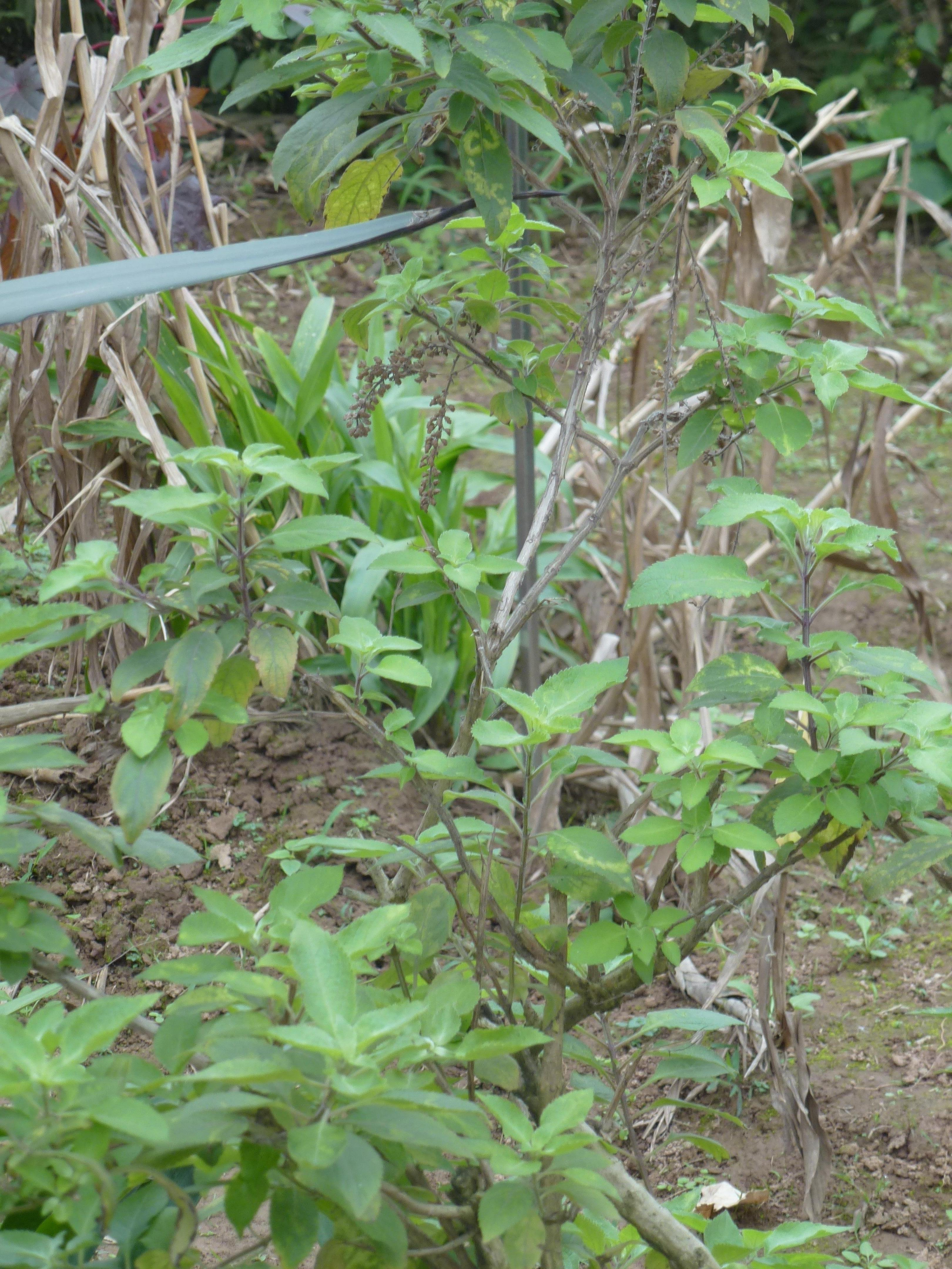 Ocimum gratissimum